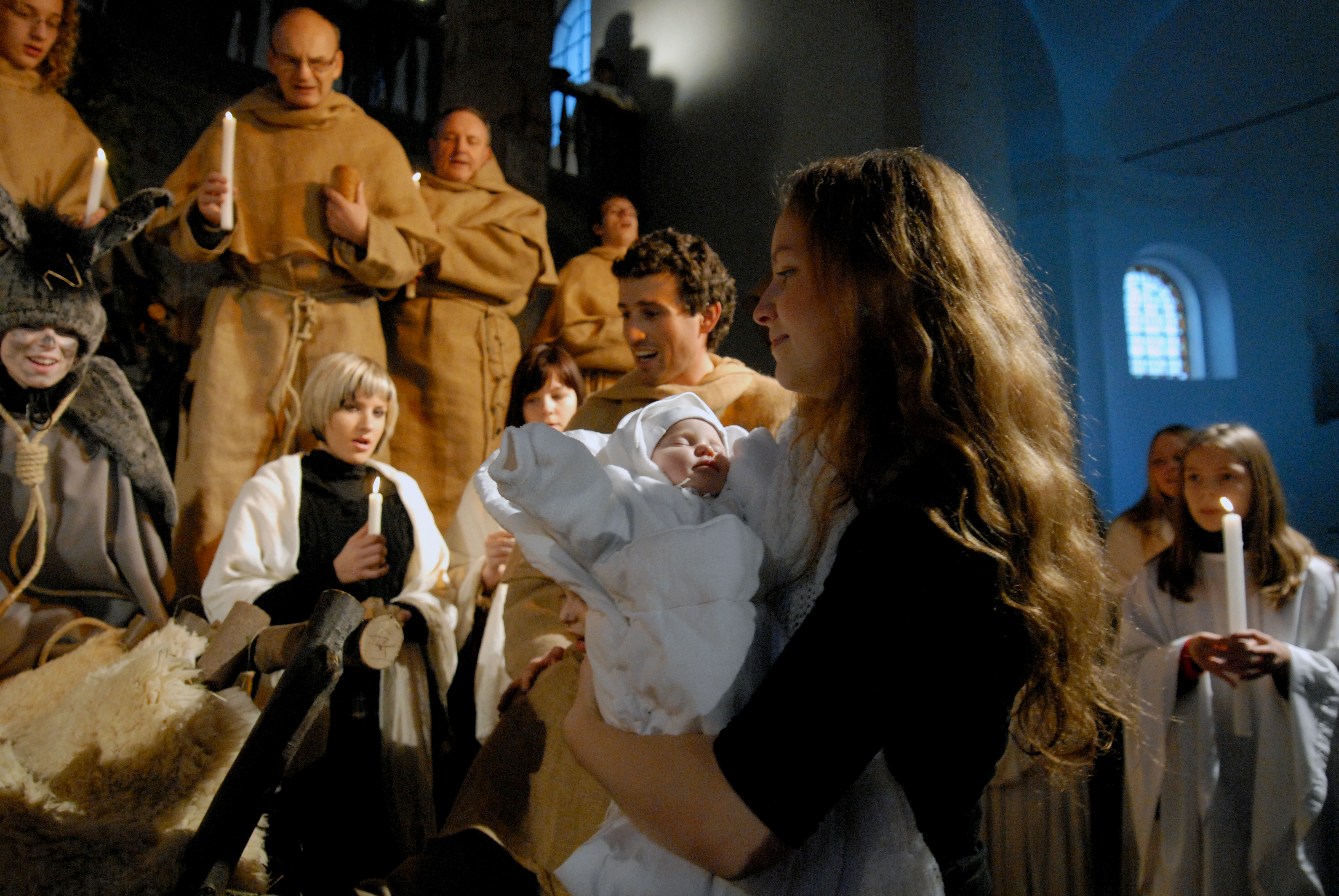 Closing scene of the Christmas play Jesličky svatého Františka (The Nativity Scene of Saint Francis) - mother lays down her baby in the feeding rack